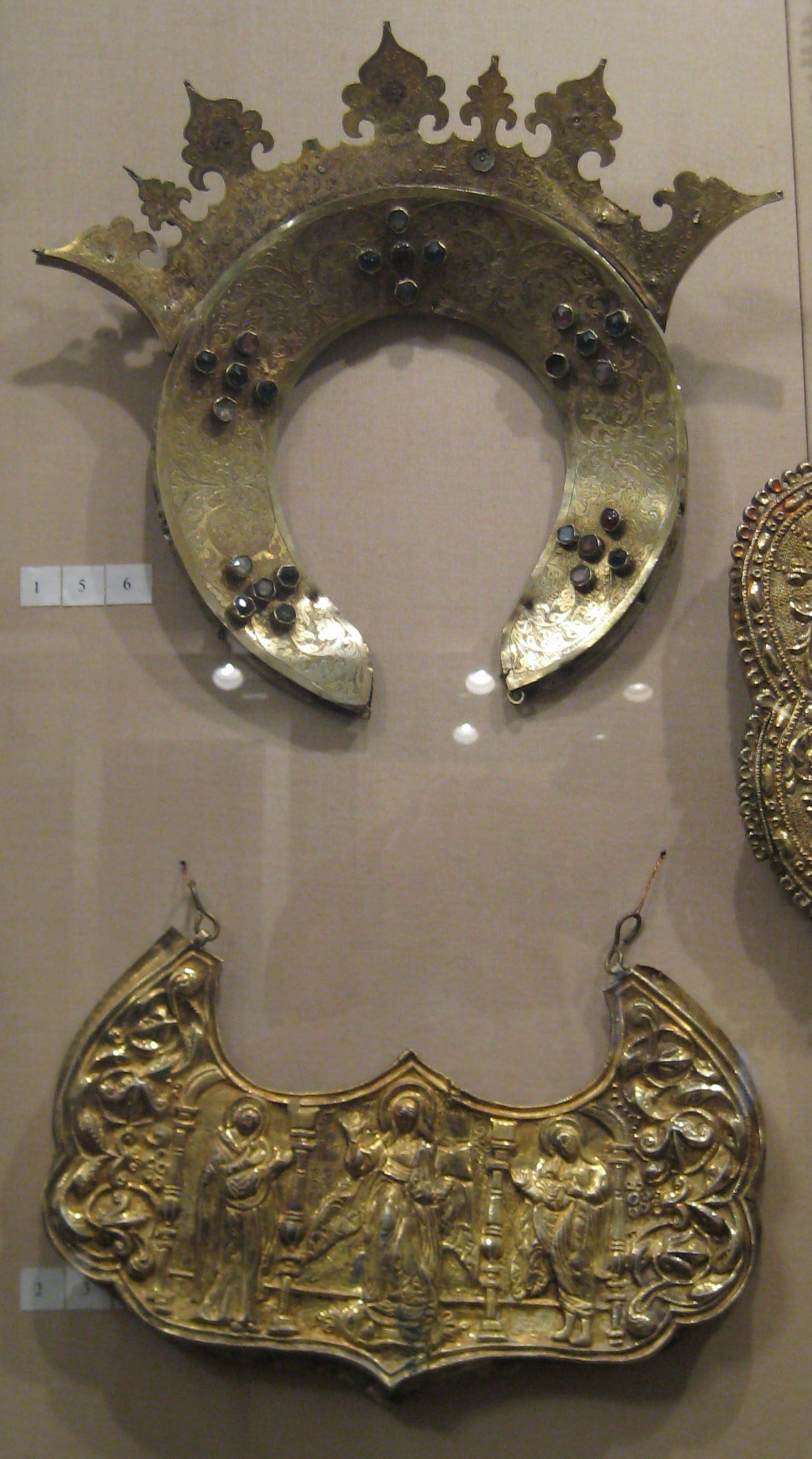 Венец и цата иконы. The elements of riza - venets (upper) and tsata. Pskov jewellery, XVII c.